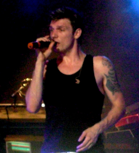 Nick Carter.